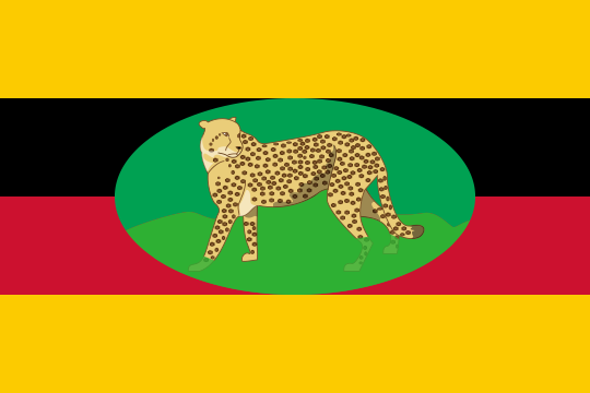 State flag of Eastern Equatoria state in southeastern South Sudan. Formerly in Sudan.